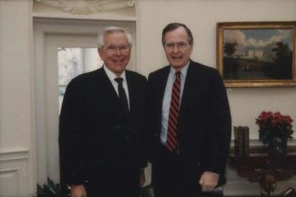 President George H. W. Bush meets with Reverend Robert Schuller, Governor John H. Sununu, and Leigh Ann Metzger.